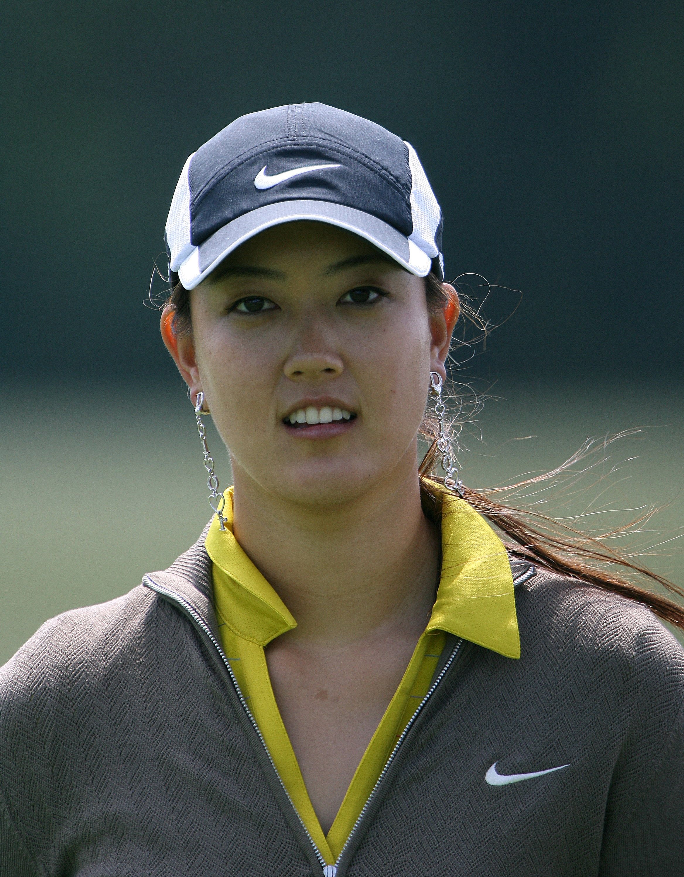 Michelle Wie (USA) the day before 2007 McDonald's LPGA Championship Presented by Coca-Cola